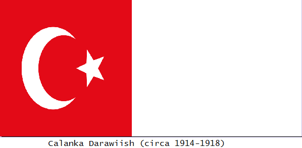 Calan cad darwiish - flag of the Darwiish